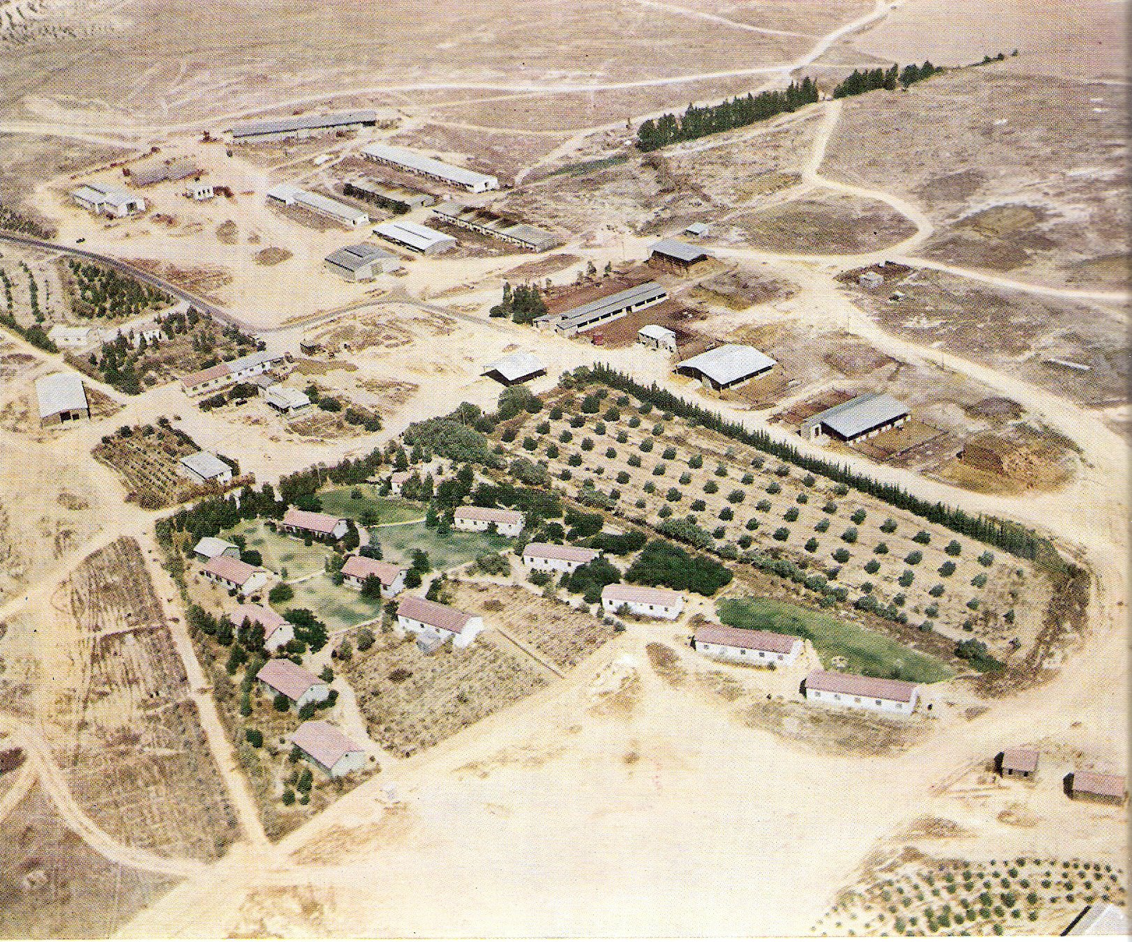 Hatzerim is a kibbutz located 8 kilometers west of Beersheba in the Negev desert in Israel.